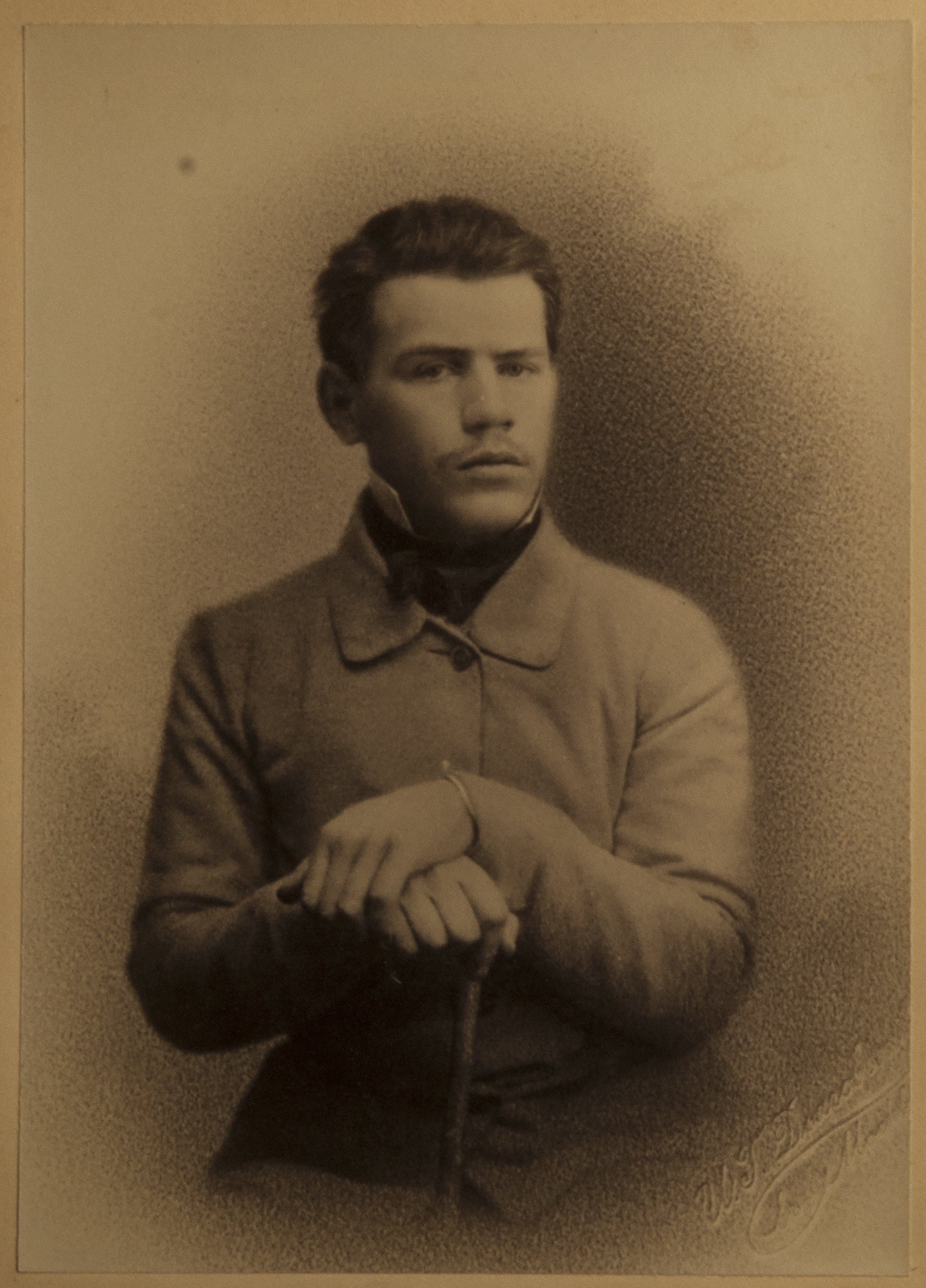 Leo Nikolayevich Tolstoy 1851